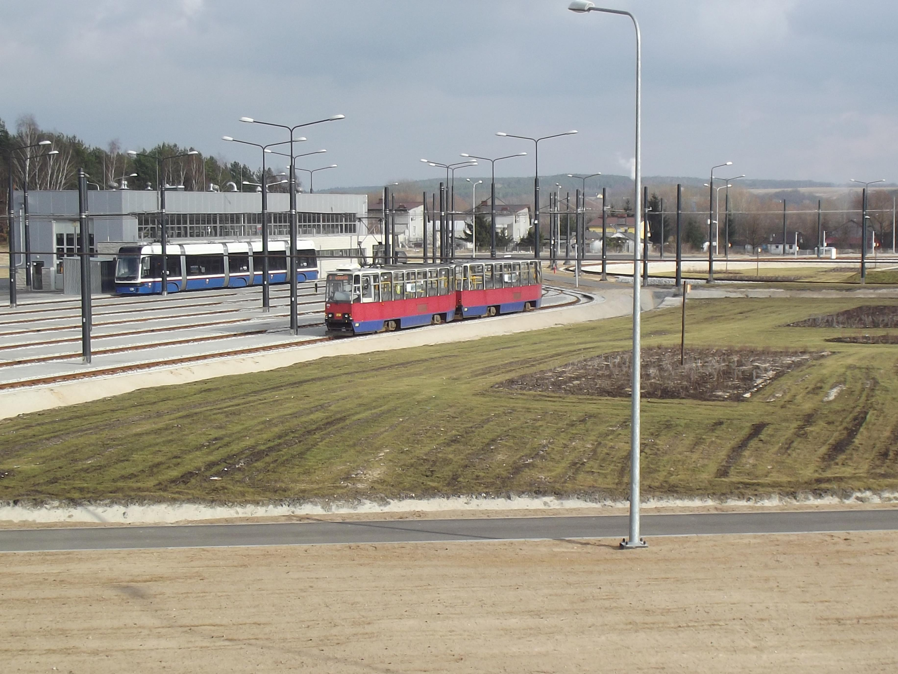 Zajezdnia Tramwajowa "Łoskoń"